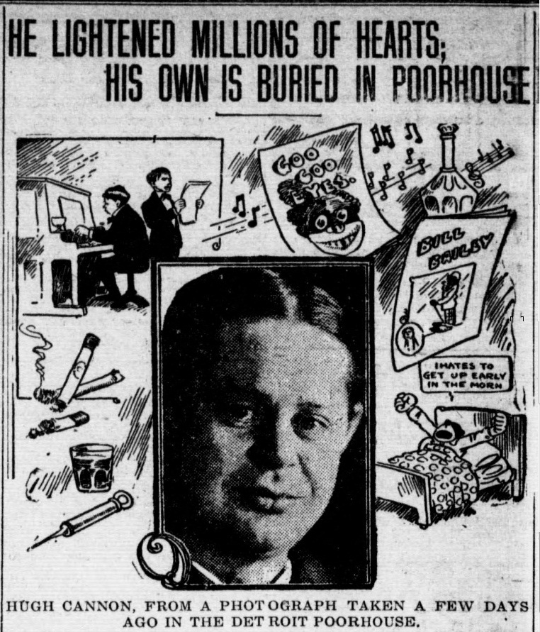 "He Lightened Millions Of Hearts; His Own Is Buried In Poorhouse". "Hugh Cannon, from a Photograph taken a few days ago in the Detroit Poorhouse". Ragtime composer & pianist Hughie Cannon, photo surrounded by cartoons showing some of his hits and the drugs he abused which led to his downfall.